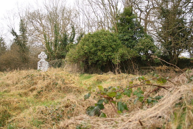 Overgrown church ruin. Ancient graveyard and overgrown church ruin near Ballynagall.